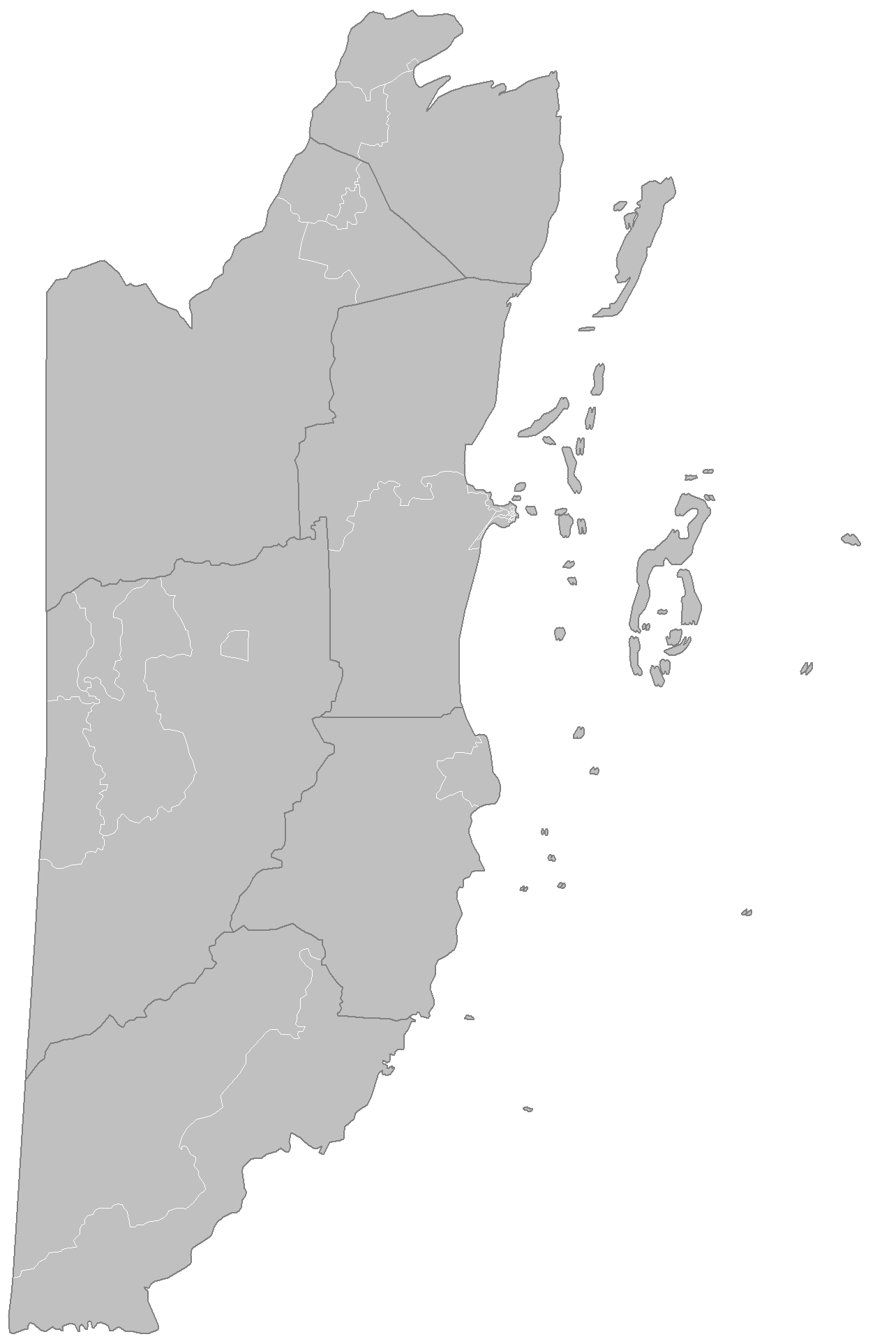 Map of the constituencies of Belize. Created by Rarelibra 14:52, 22 January 2008 (UTC) for public domain use, using MapInfo Professional v8.5 and various mapping resources.